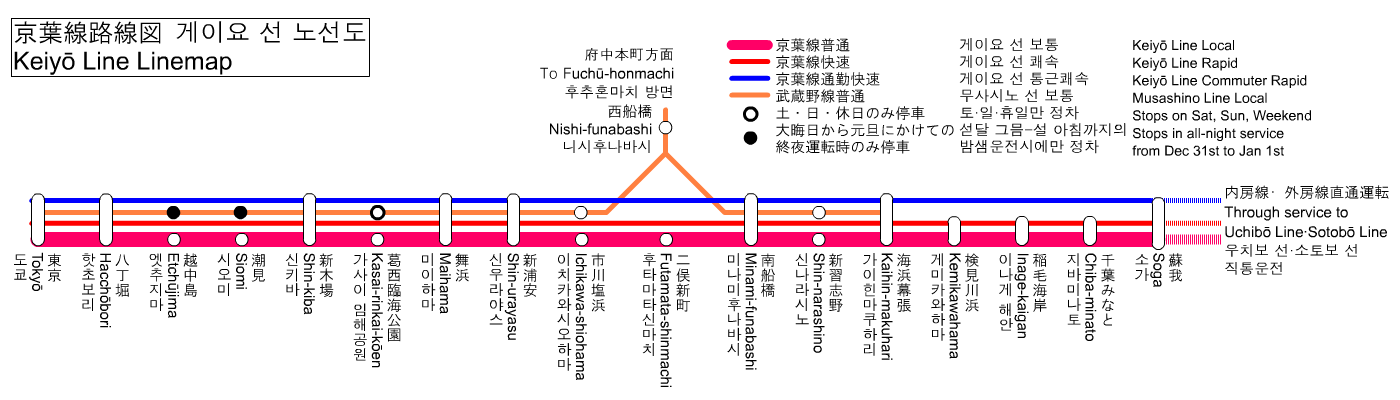 Keiyō Line Linemap.